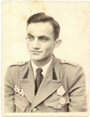 Shmuel Goder, IDF brigadier general, President of the Military Court of Appeals in Polish army uniform.